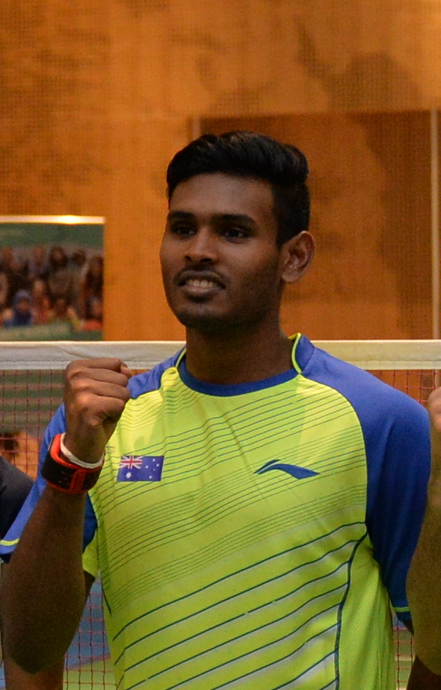 Rian Agung Saputro, Gronya Somerville, Richi Puspita Dili, Sawan Serasinghe, Berry Angriawan, Matthew Chau, Riky Widianto and Setyana Mapasa at the friendly match between Australia and Indonesia at the Australian Embassy Jakarta in 2016